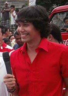 Portrait of Paolo Ballesteros